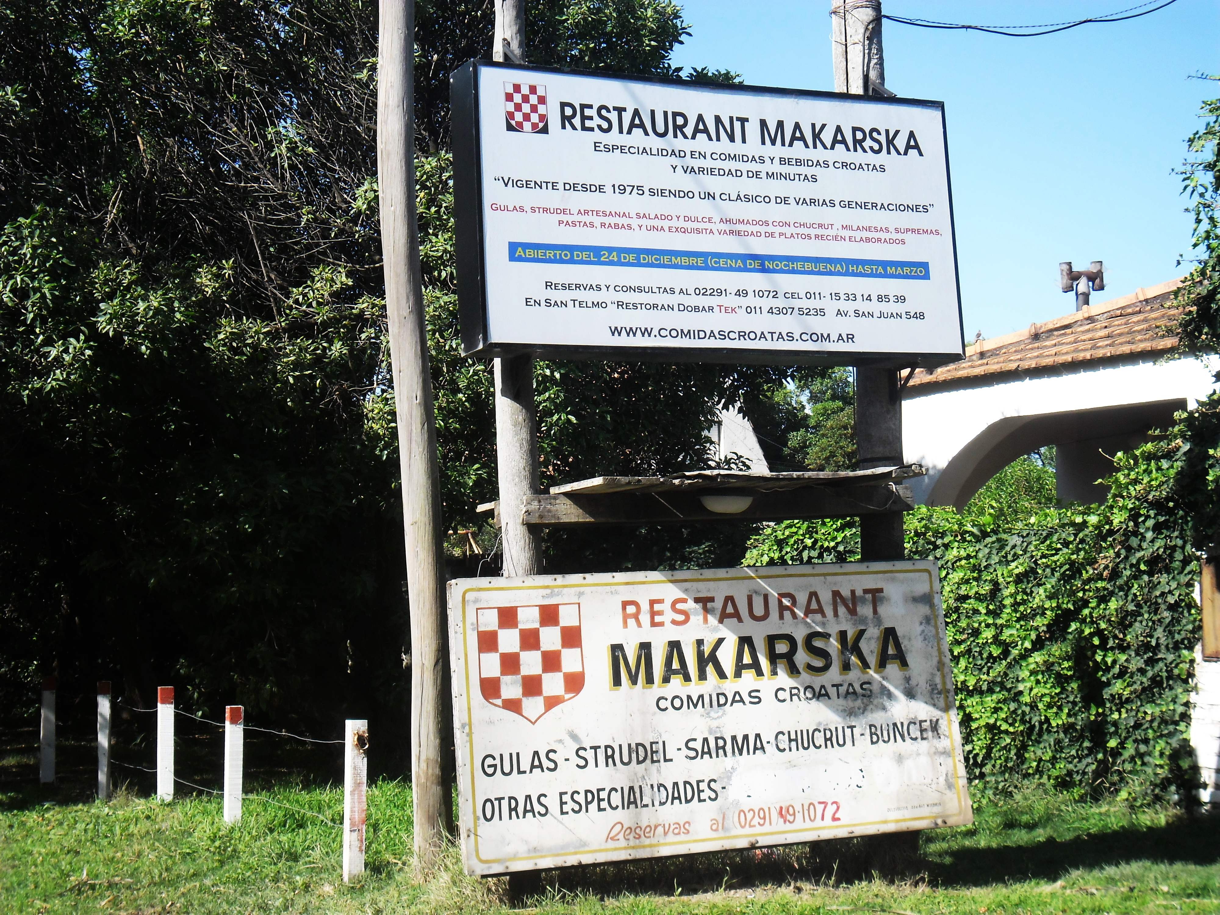 Croatian Restaurant in Mar del Sud, Buenos Aires Province, Argentina.